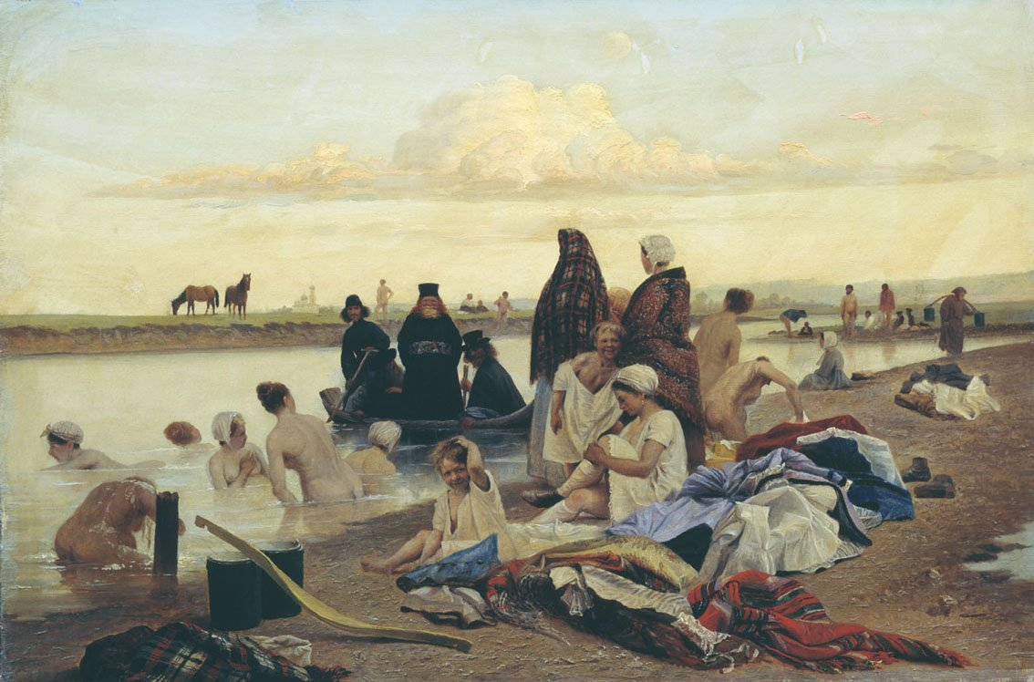 «Monks. Went to the wrong place» (painting by Lev Solovyov)